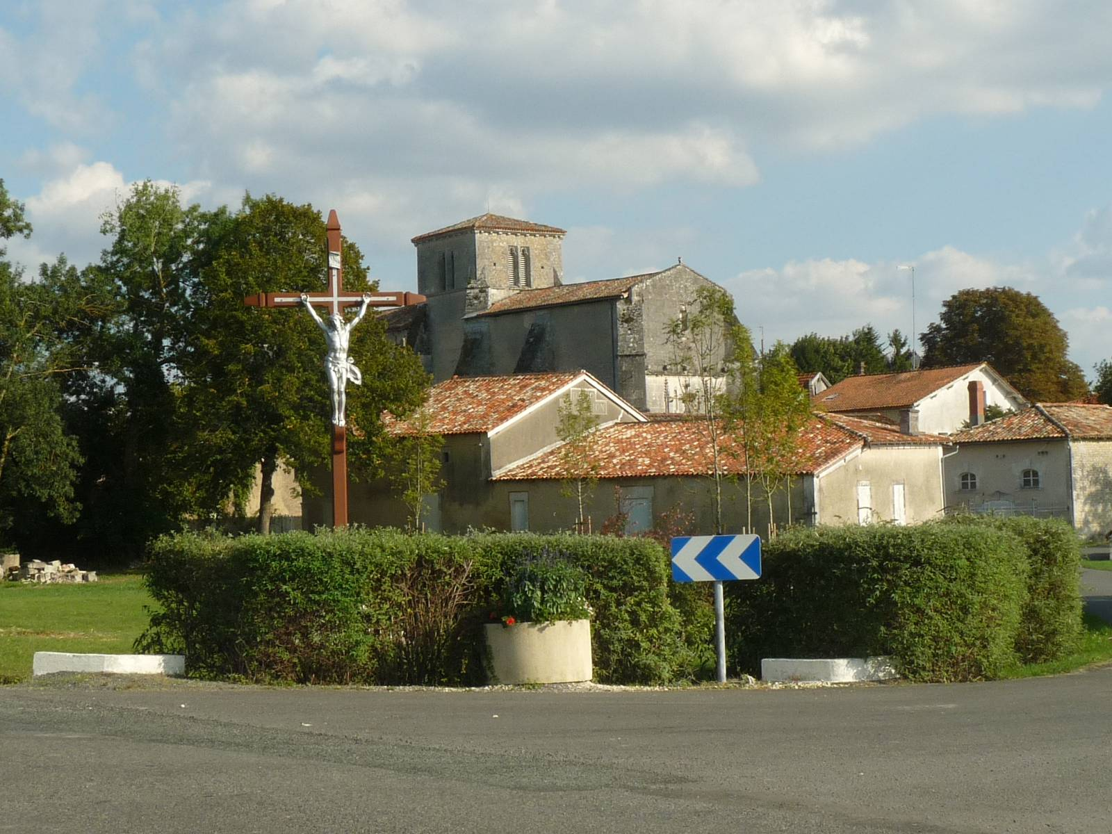 village and church of Saint-Bonnet, Charente, SW France